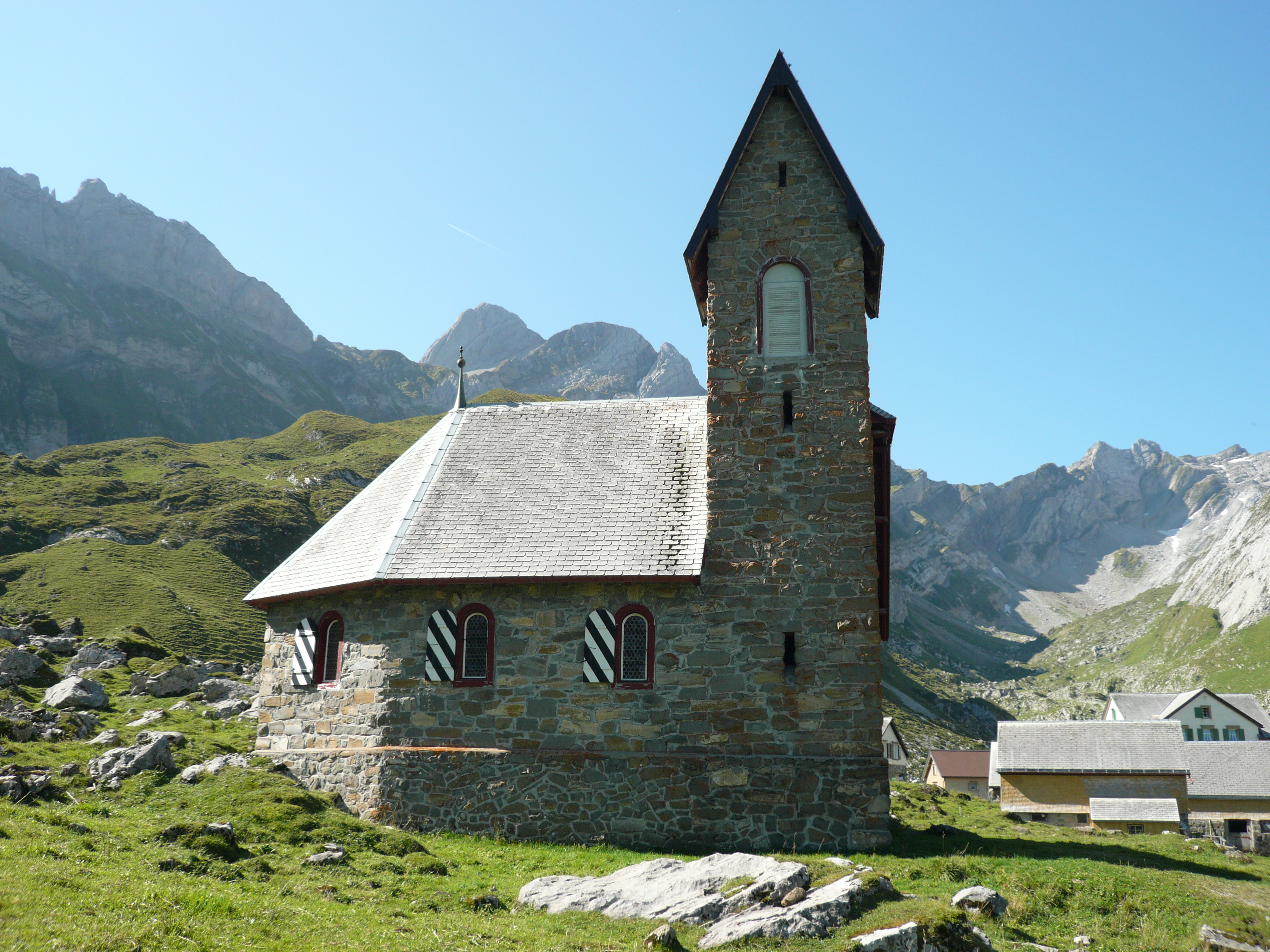 Chapel at Meglisalp, Switzerland